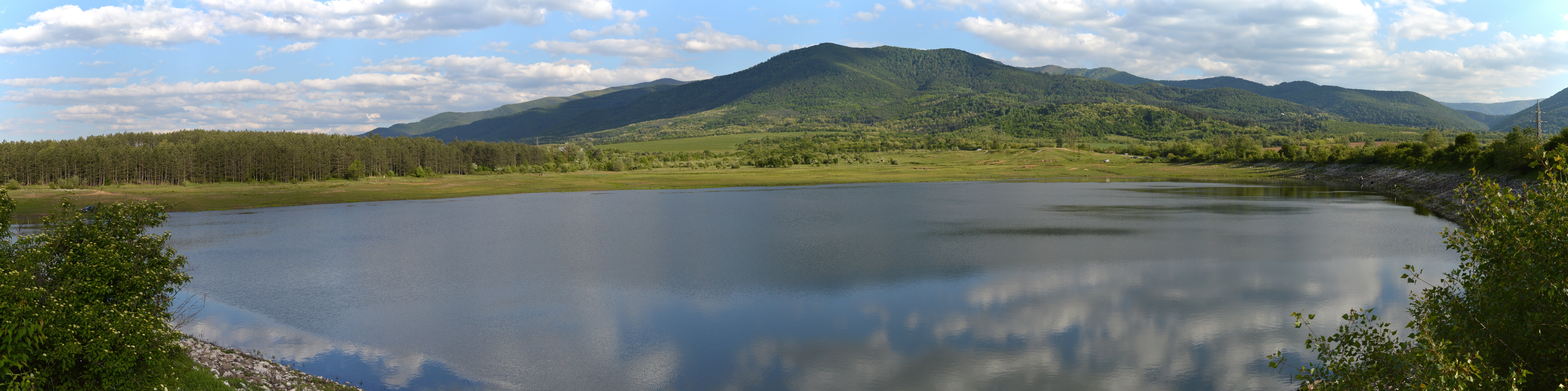 Mali lag reservoir, Botevgrad, Bulgaria.